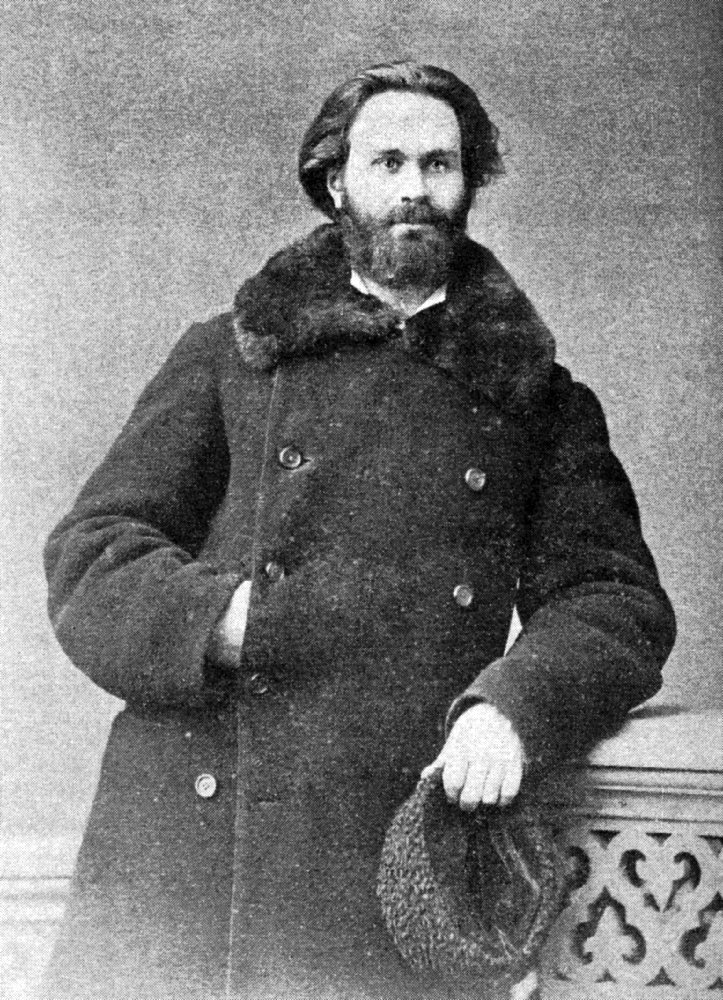 Russian Zoologist and nature writer, Leonid Sabanayev (1844-1898)